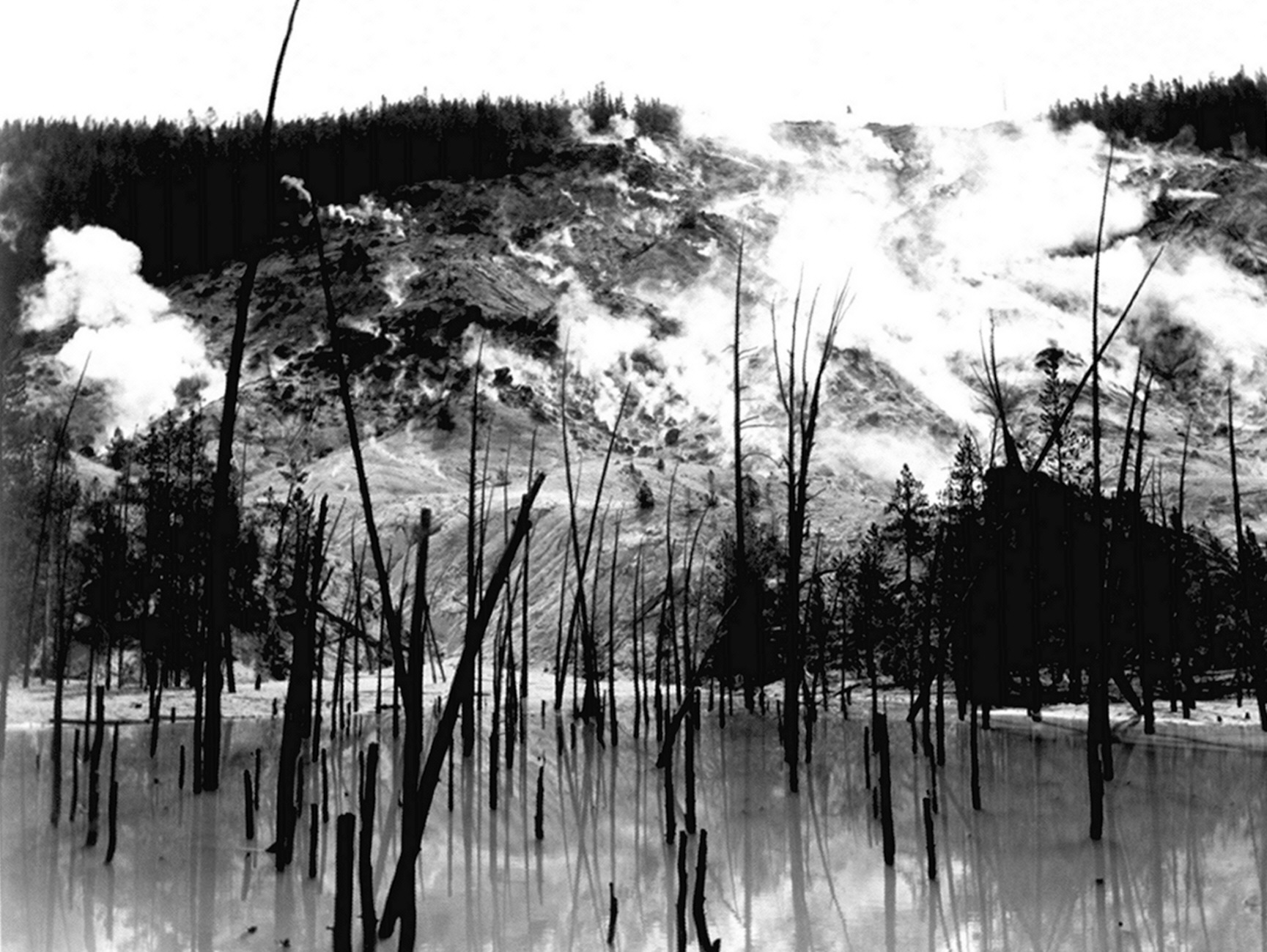 79-AAT-10 "Roaring Mountain, Yellowstone National Park," barren tree trunks rising from water in foreground, stream rising from mountains behind. Yellowstone 1942, Ansel Adams -May need an ultra high resolution scan to do justice to this print -Mak 03:55, 4 April 2006 (UTC)